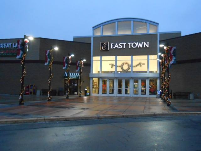 Front entrance of East Town Mall in Green Bay, Wisconsin.